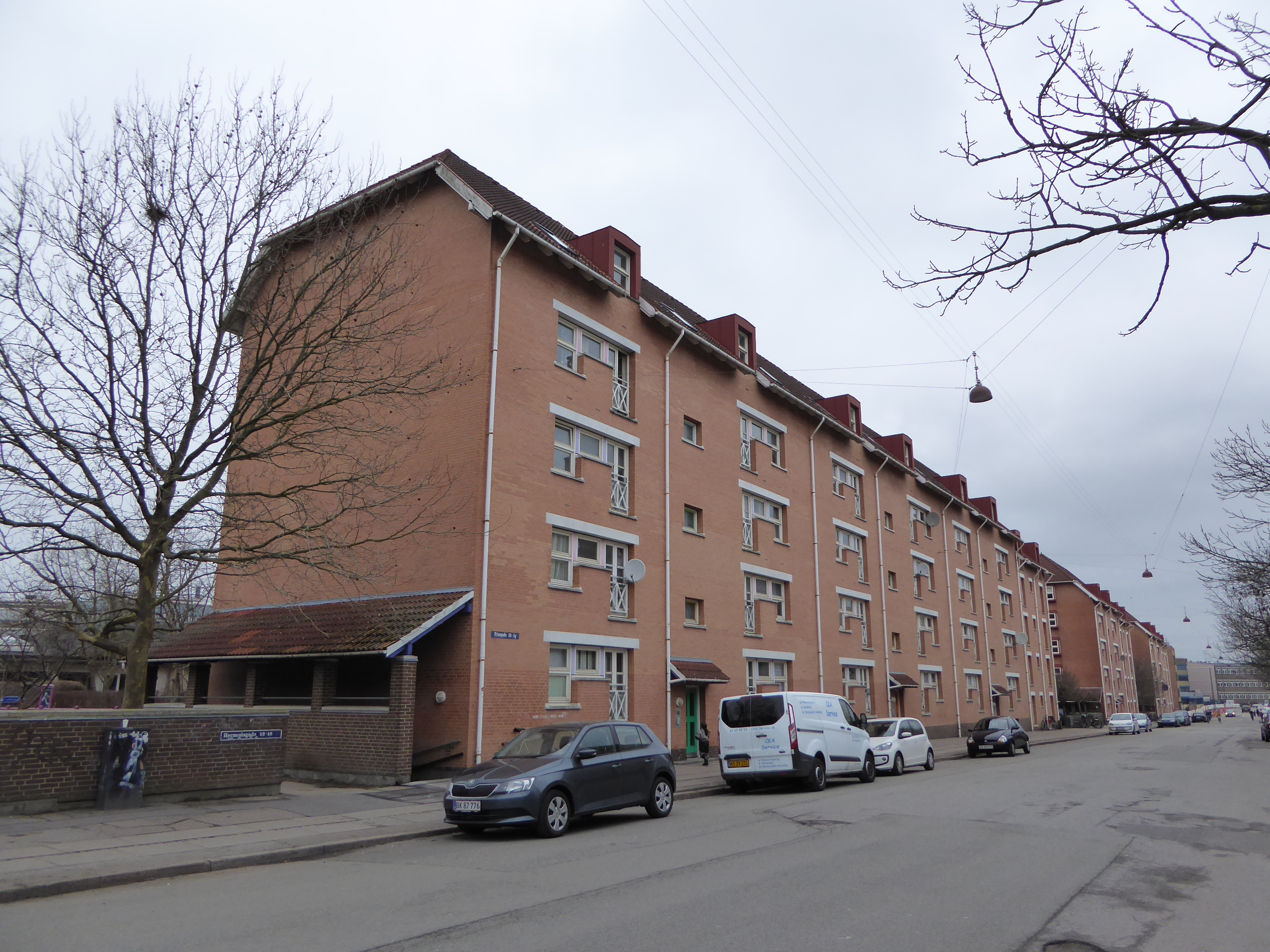 Apartment building in the neighborhood Titanparken at Titangade in Nørrebro in Copenhagen.